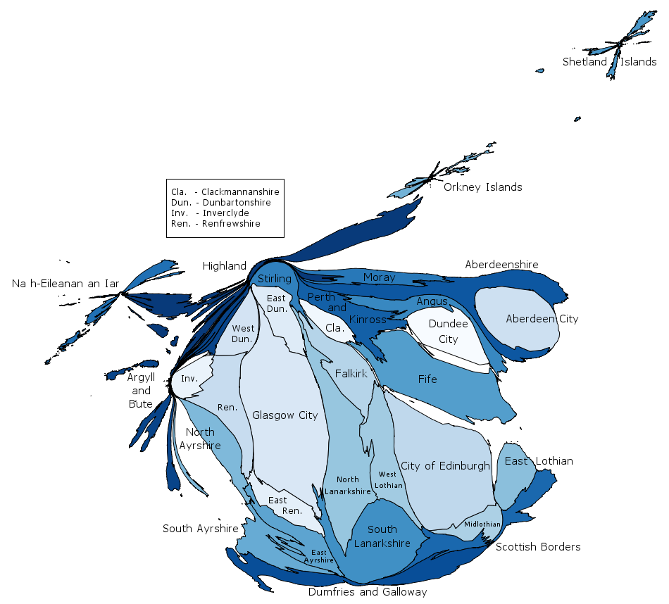 Scotland population cartogram. Size of councils is approximately in proportion to their population. The darker colour the bigger is real area of a council.